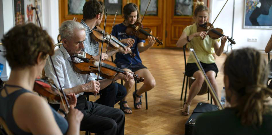 workshops at the "Mazurkas of the World" Festival - May 2013 (fiddler Stefan Nowaczek from the Podłęż village)